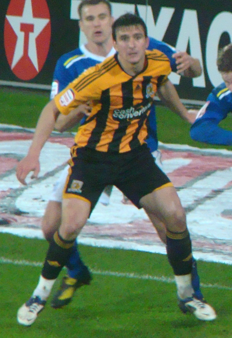 Jack Hobbs. Image cropped from original at flickr.